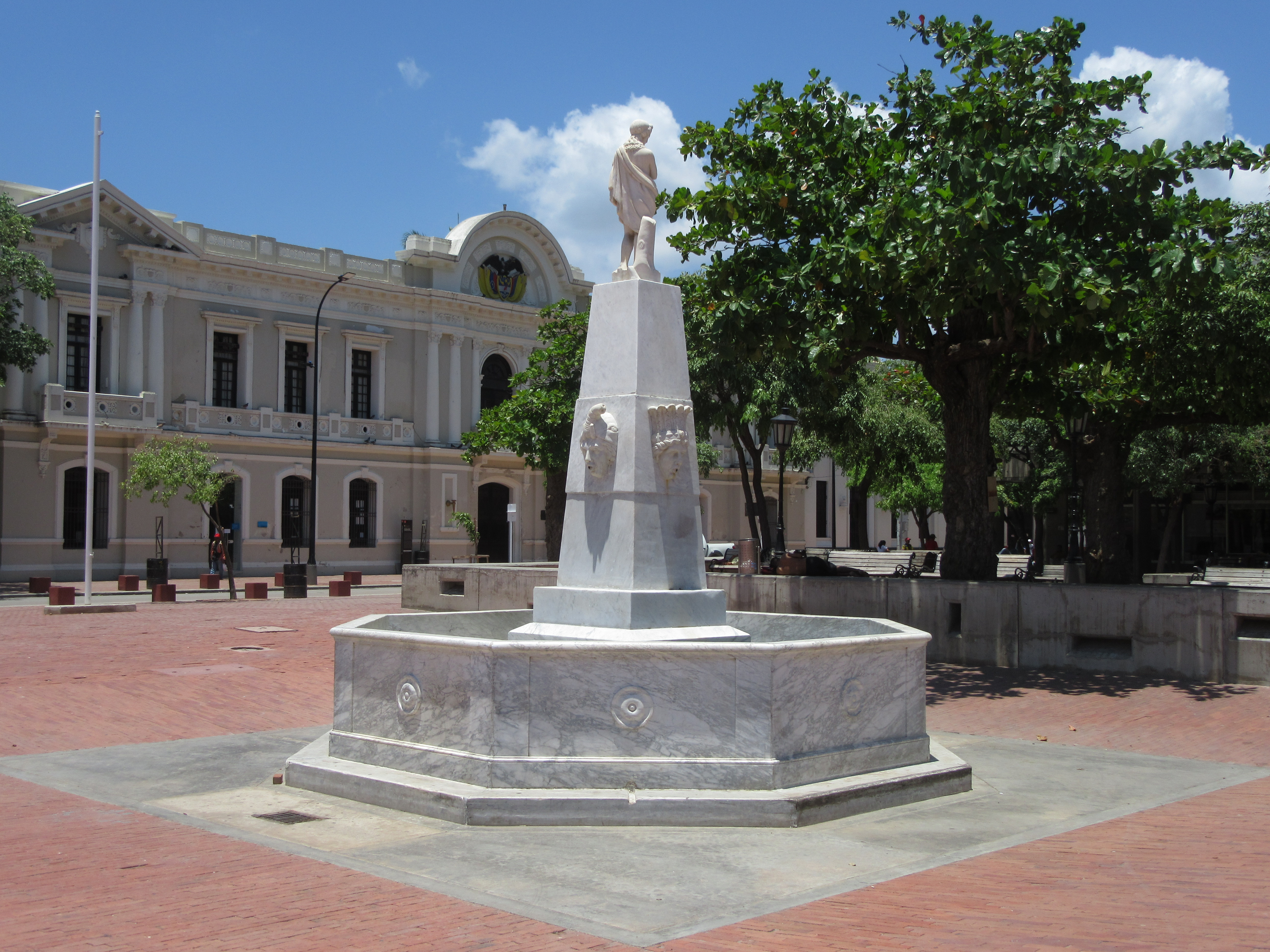 Santa Marta